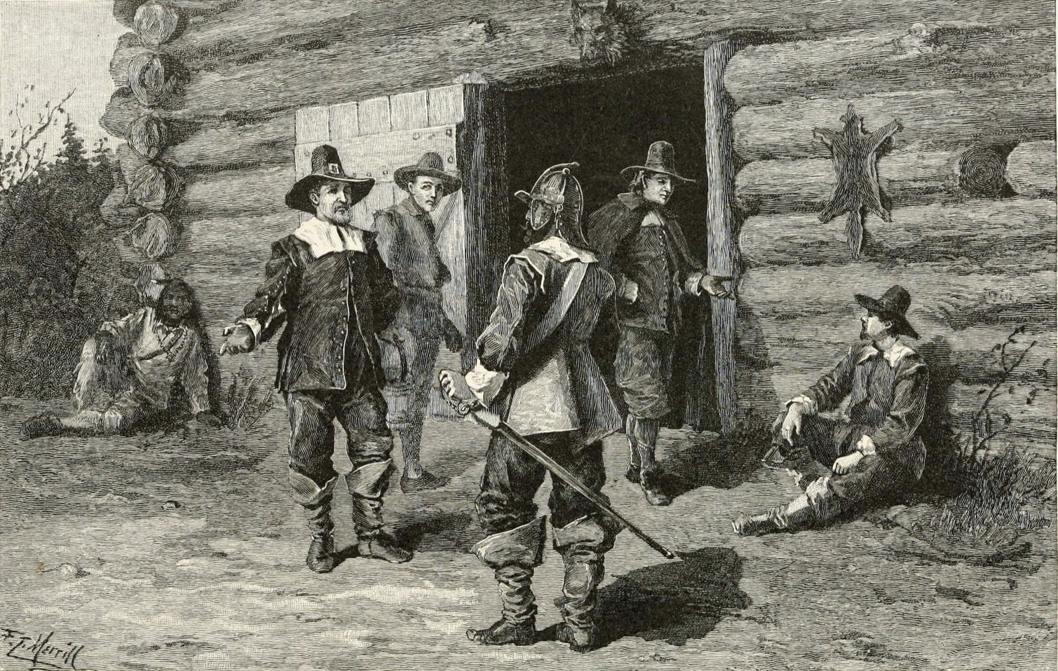 A 19th century depiction of William Pynchon opposing the trade demands of Captain John Mason.